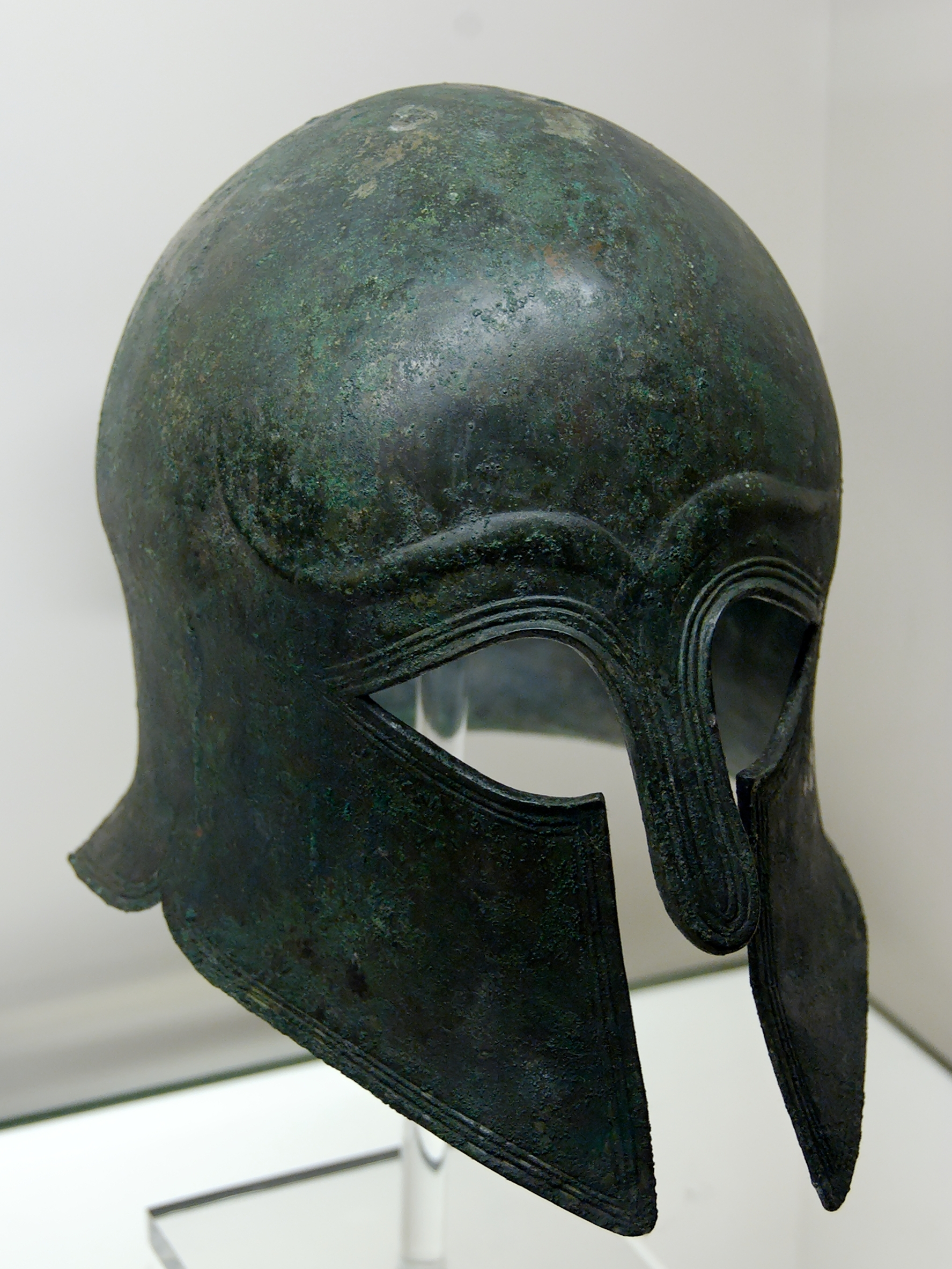 Apulo-Corinthian helmet, type A.